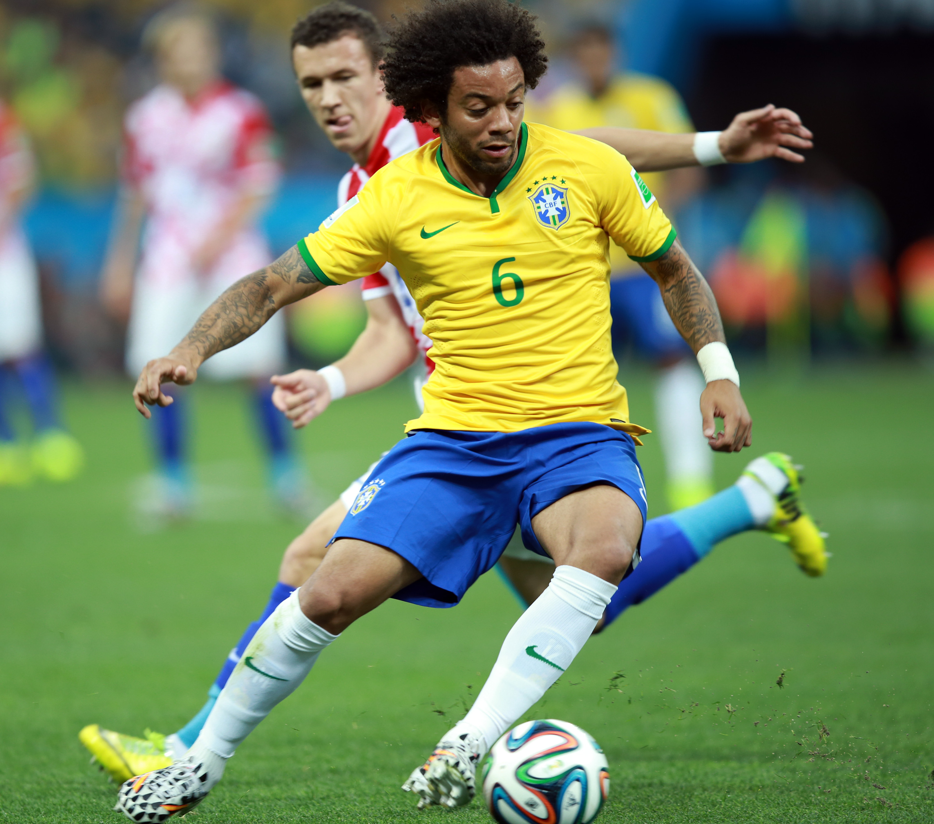 Brazil and Croatia match at the FIFA World Cup 2014-06-12, Marcelo (Brazil) front and Ivan Perišić (Croacia)